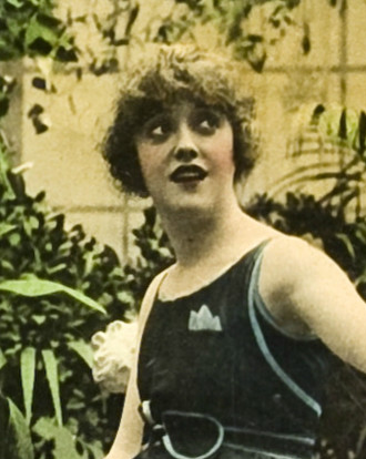 Lobby card for the American comedy romance film The Venus Model (1918).